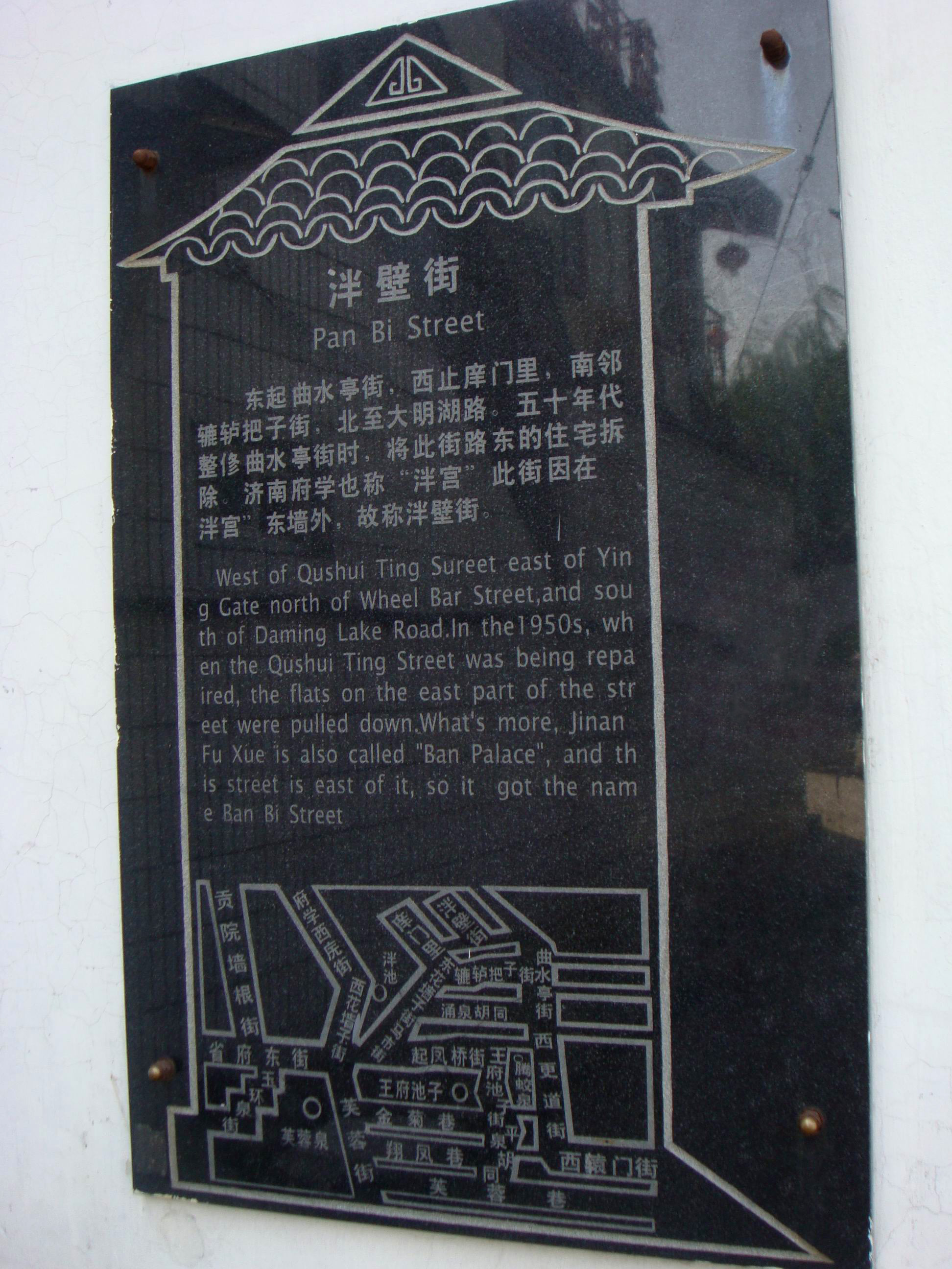 Historical plaque at the Jinan Confucian Temple, in Jinan, Shandong Province.